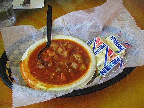 At the Hungry Tarpon.